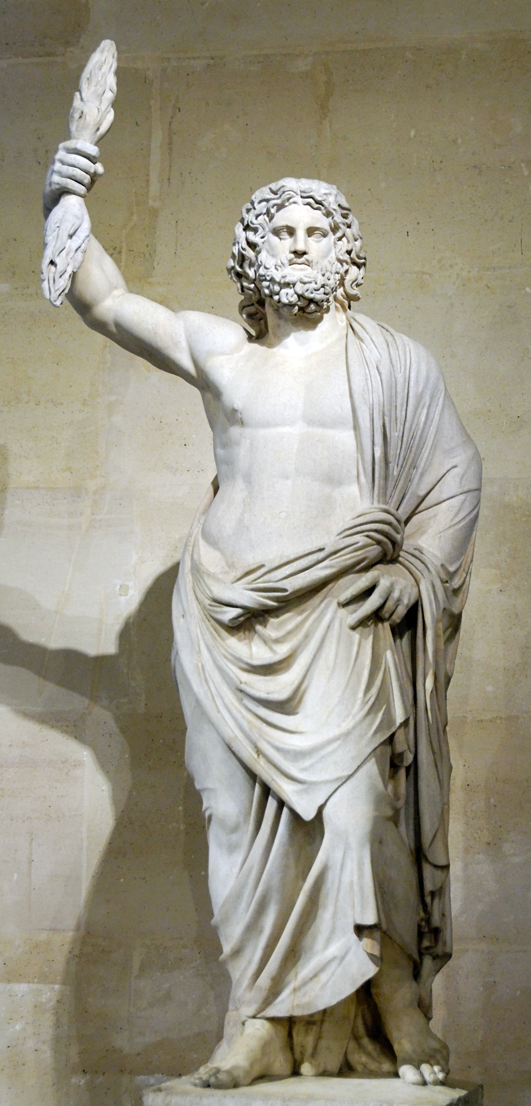 Statue of a male deity, brought to Louis XIV and restored as a Zeus ca. 1686 by Pierre Granier, who added the arm raising the thunderbolt.